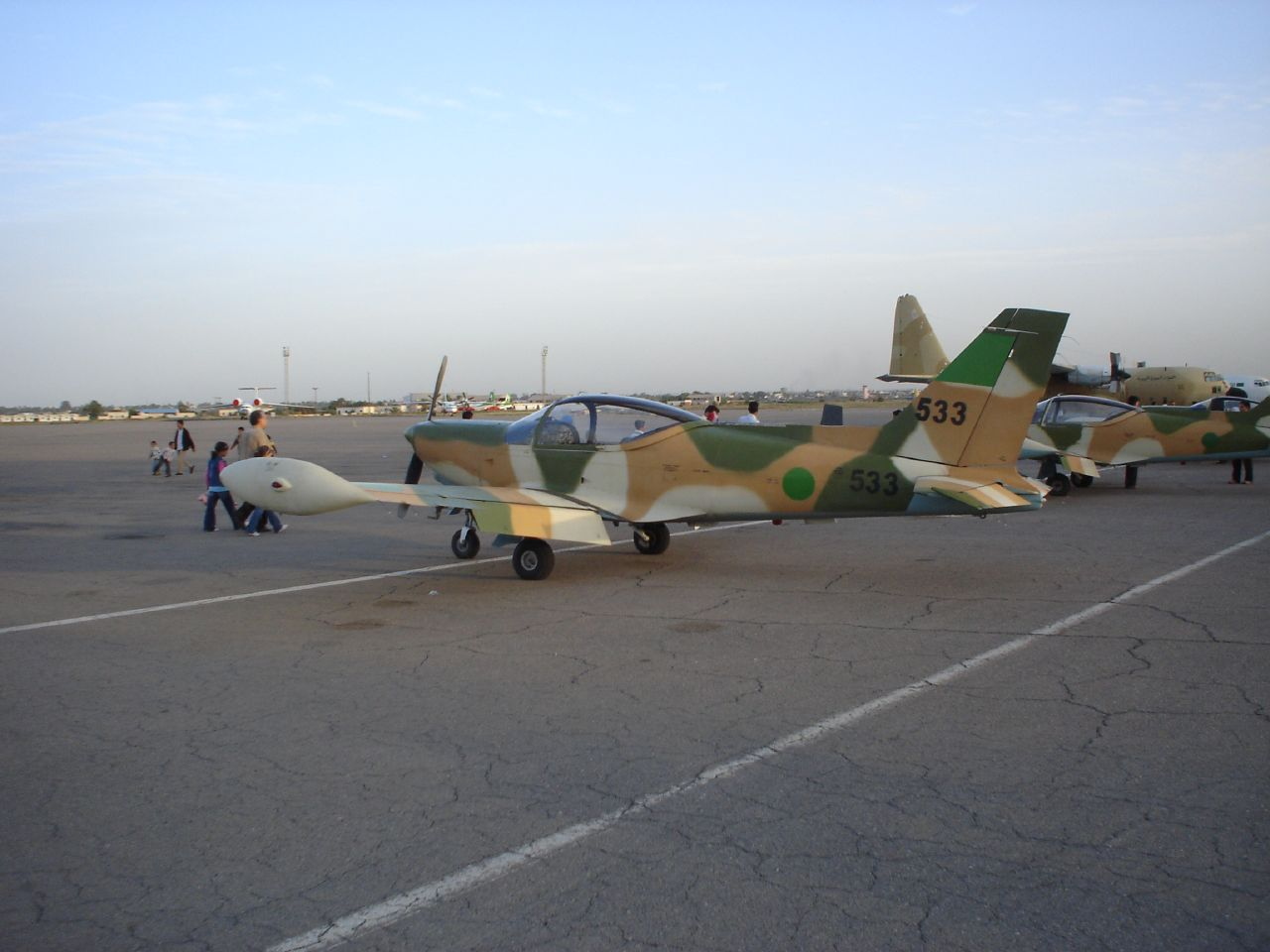 Libyan Training Fighter